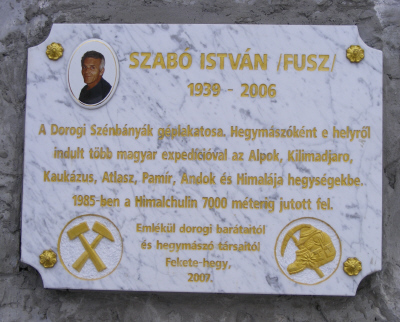 In memory of the famous climber